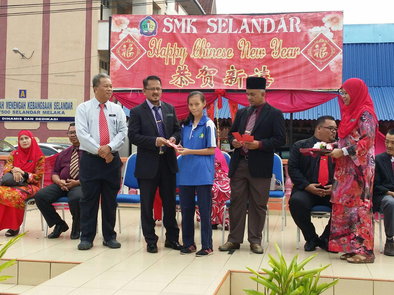 CNY 10